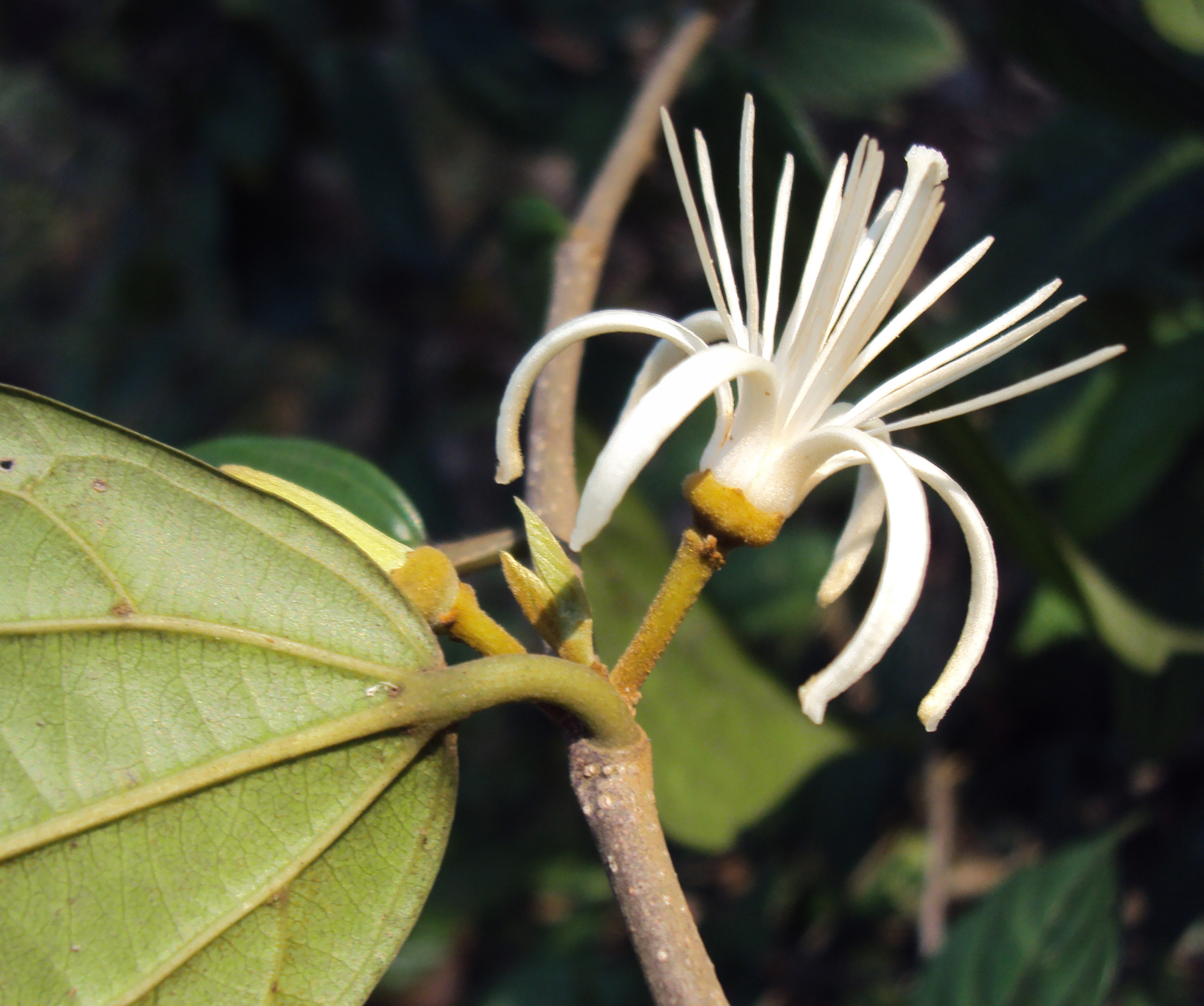 Alangium Salvifolium